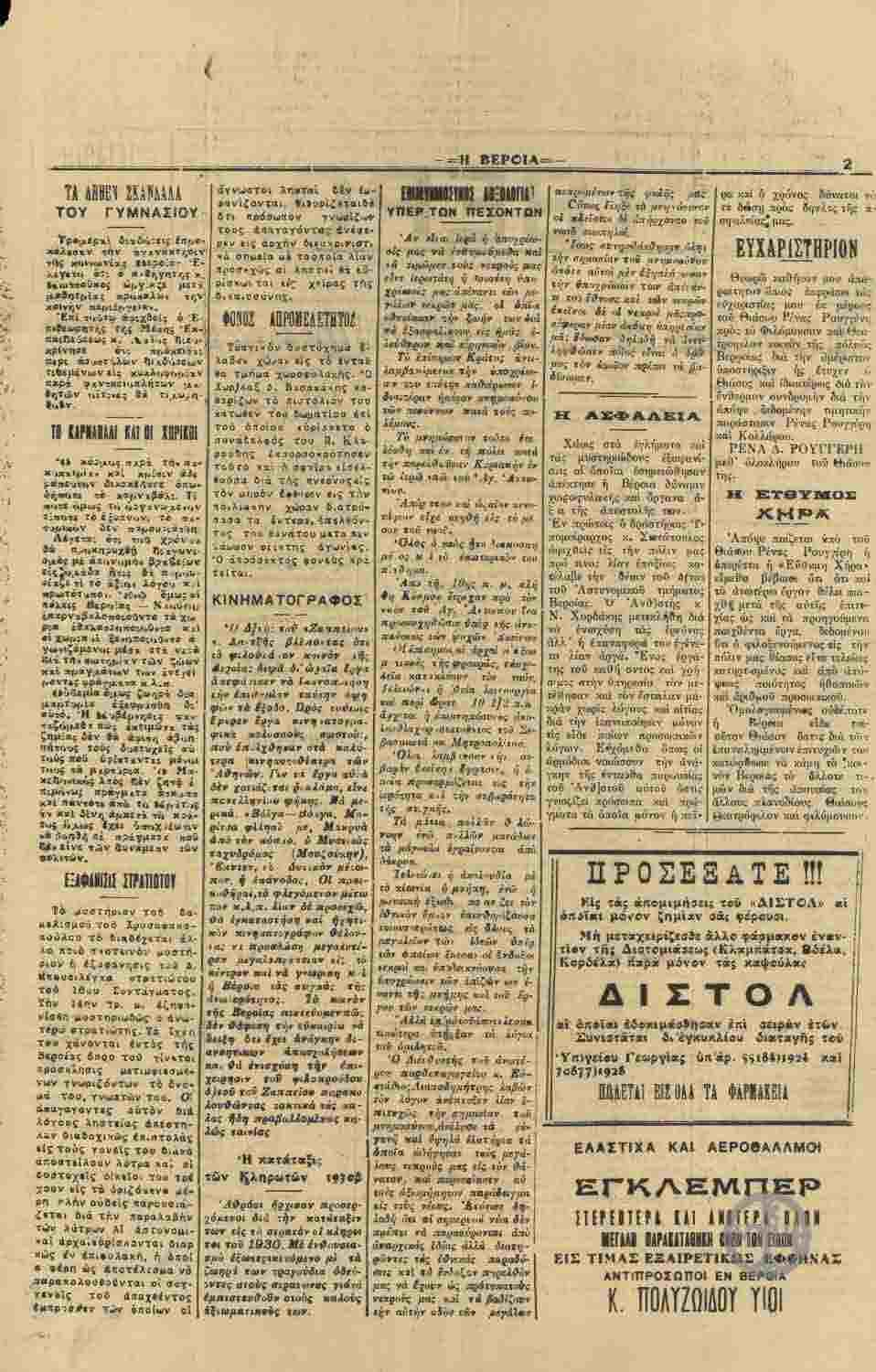 Veria Newspaper 4 March 1931